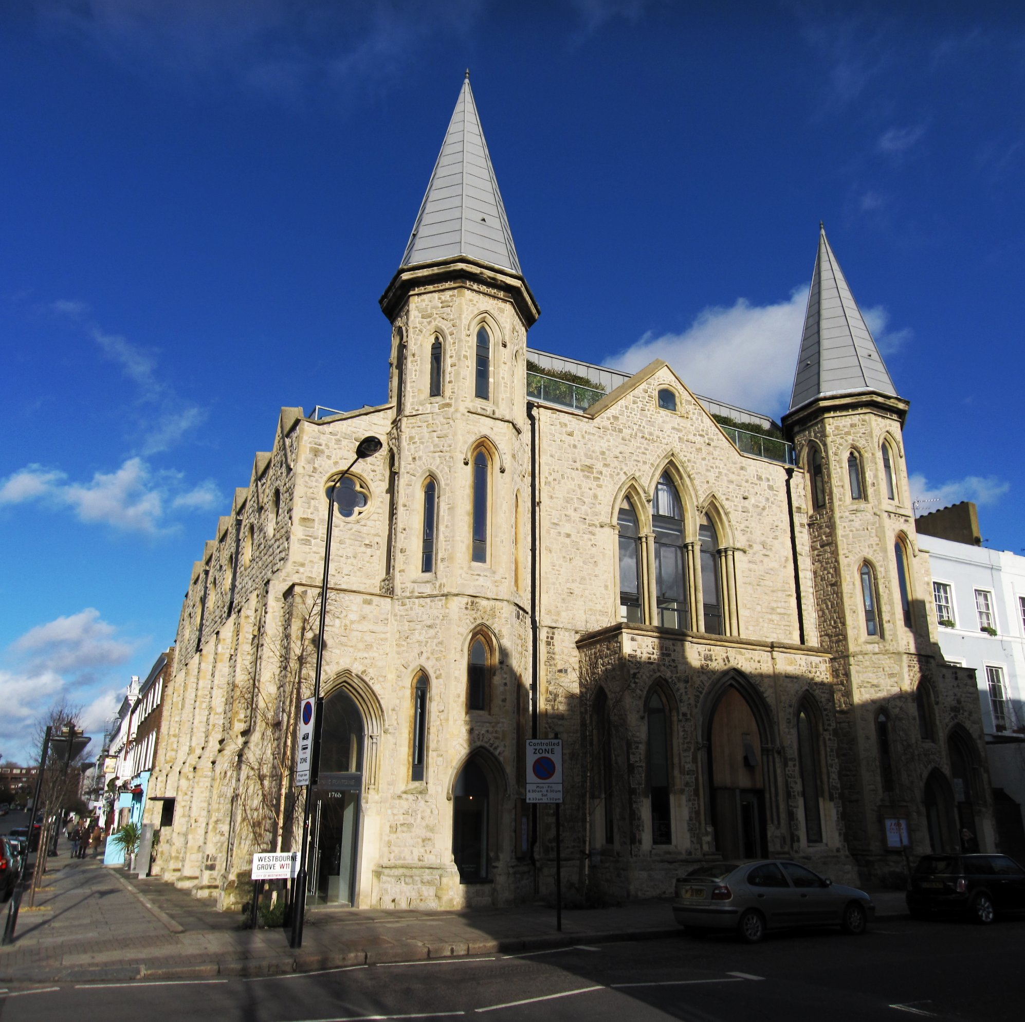 Westbourne Grove Church, on the corner of Ledbury Road, London W11, seen from the south